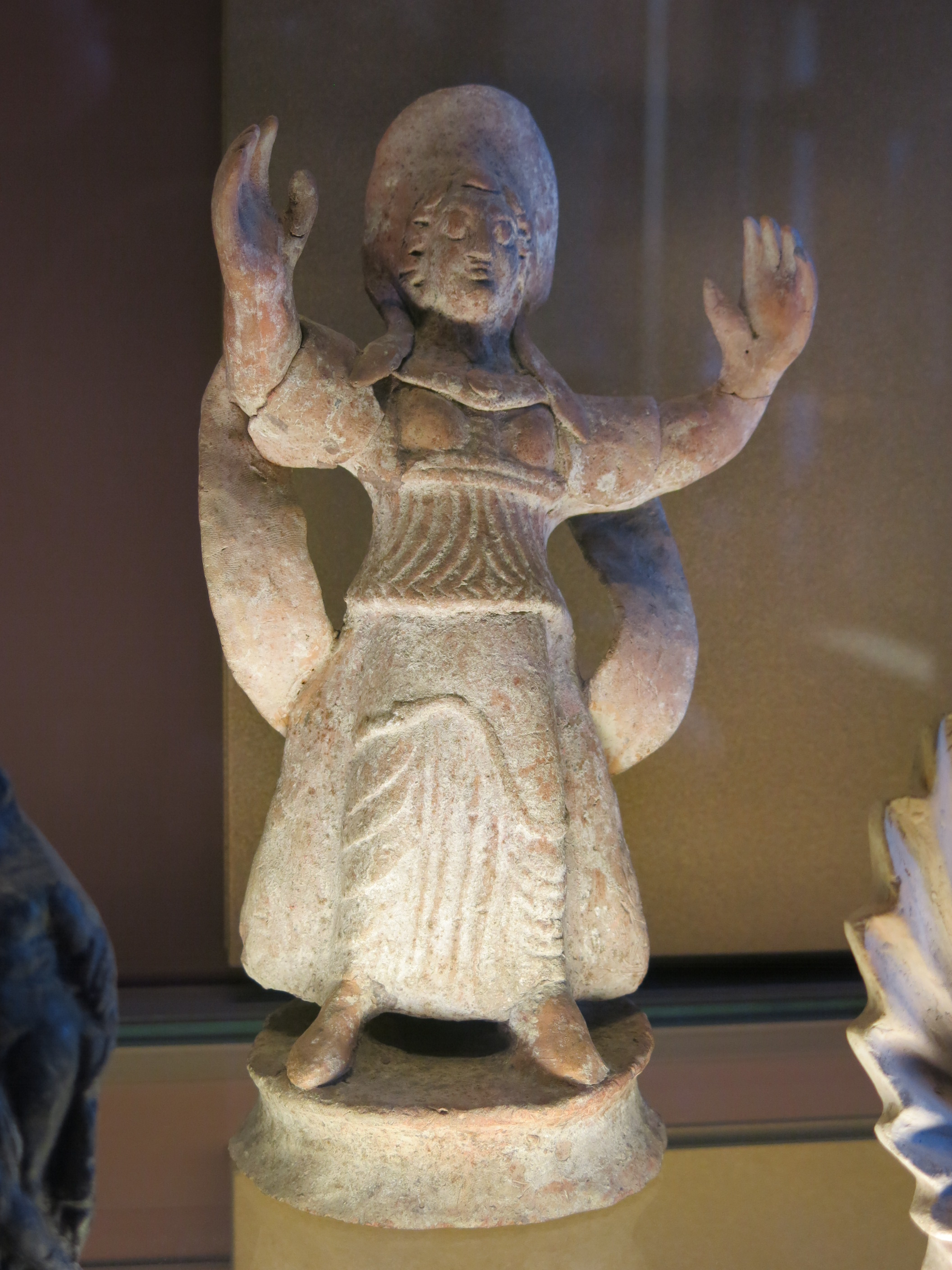 Mithridates V of Pontus (157-121 BC) Evergete=Benefactor. 150-125 BC. Louvre museum (Paris, France).